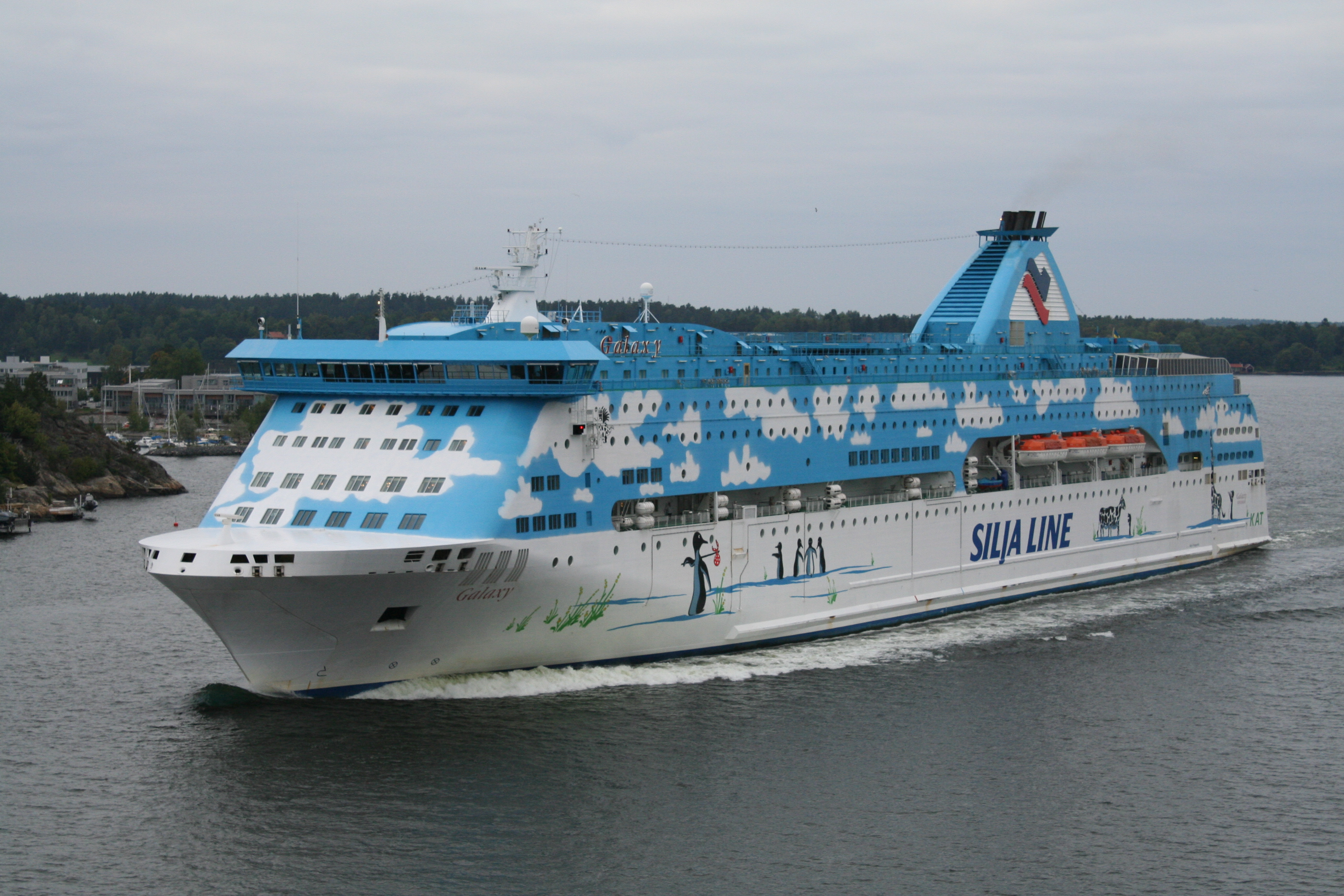 Silja Line cruiseferry MS Galaxy in the Stockholm archipelago en-route from Turku to Stockholm via Mariehamn.